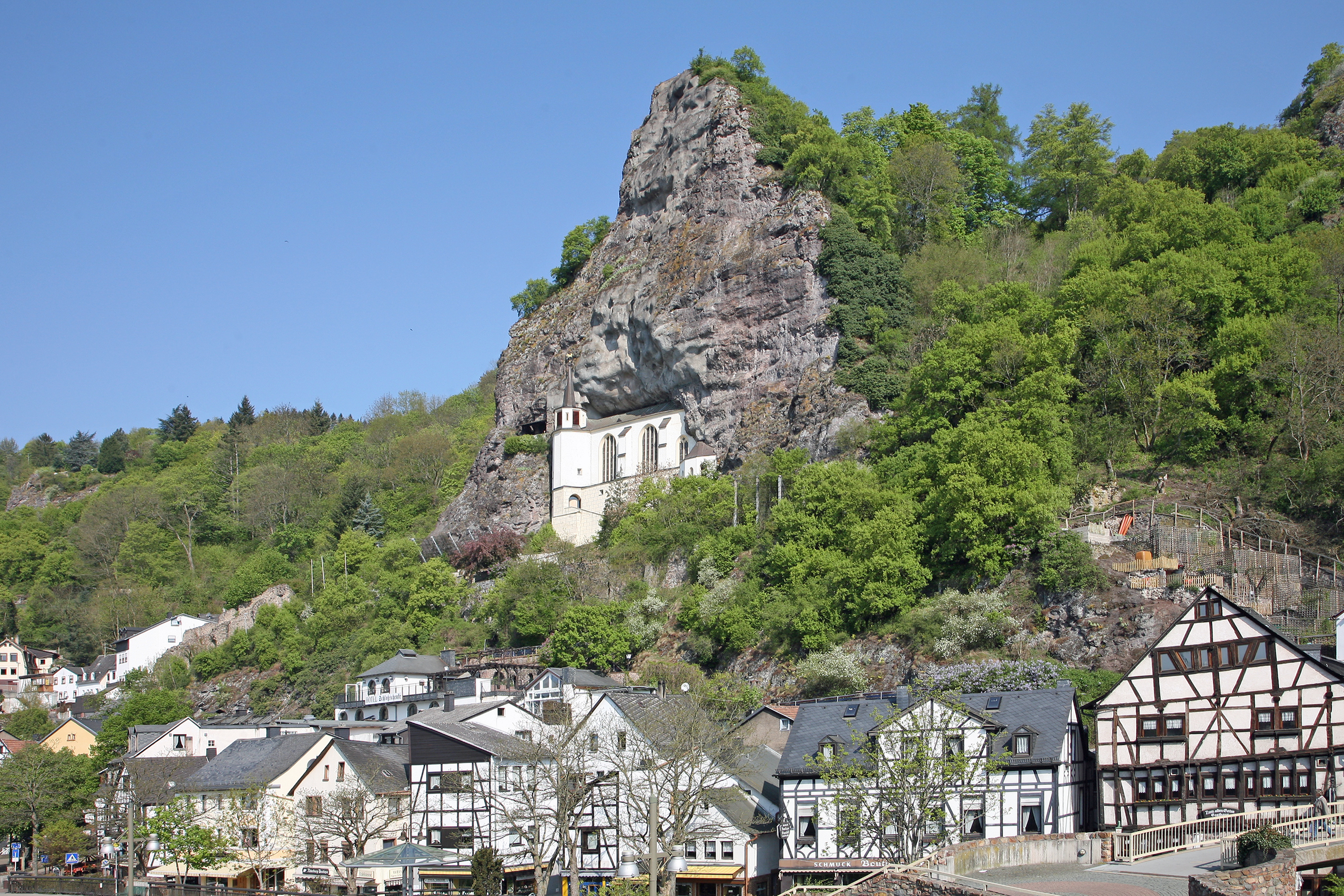 Rock Church of Idar-Oberstein, a small late Gothic church in a natural rock niche above the city.